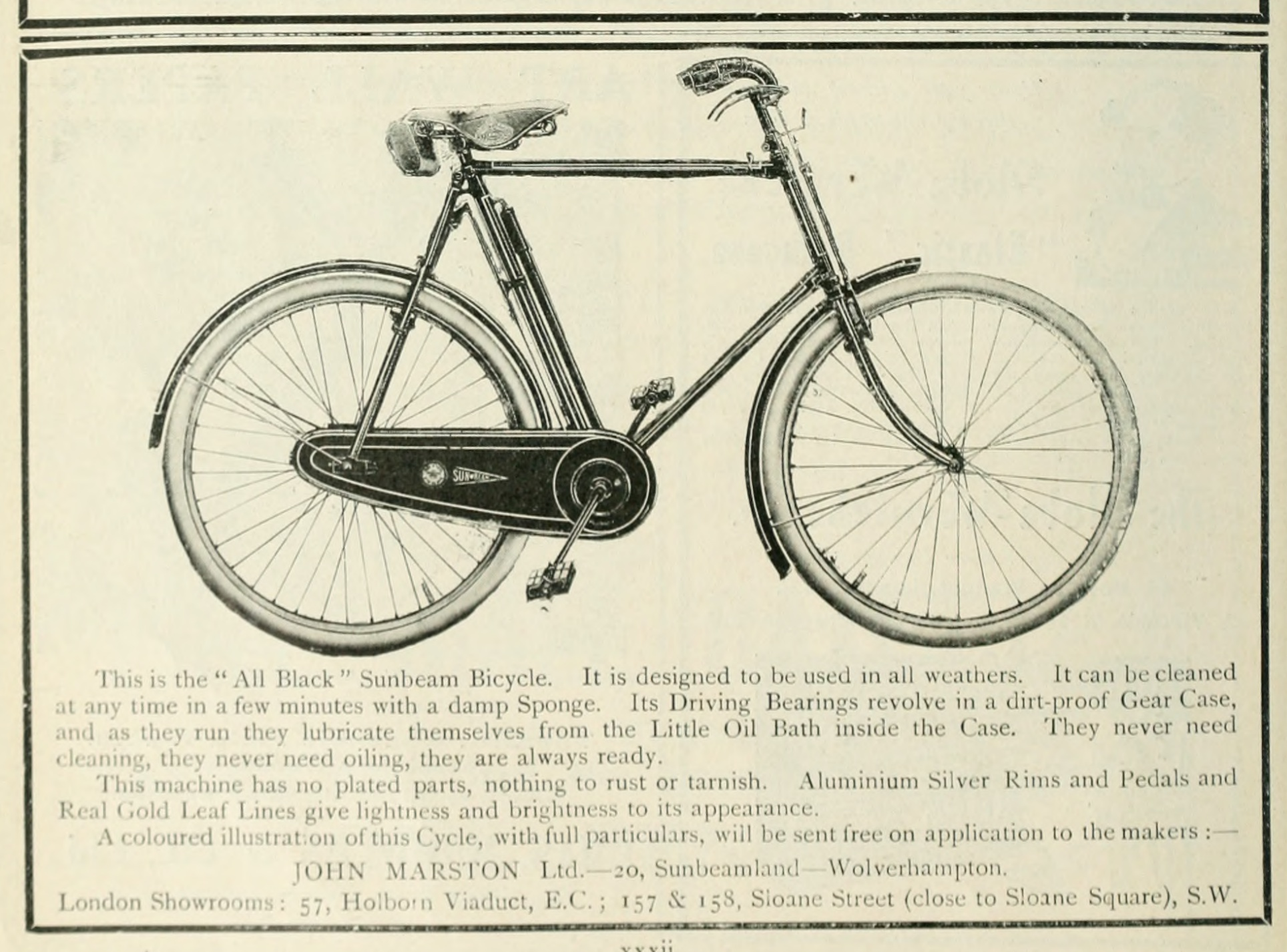 1912 Sunbeam men's safety bicycle